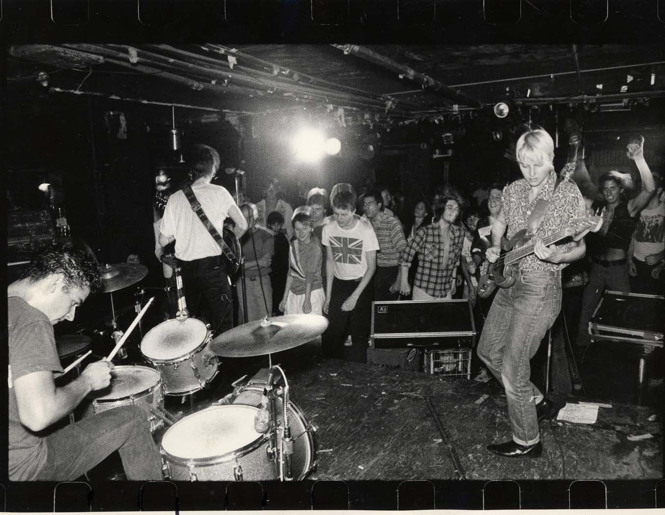 The Young Snakes playing the Rathskeller, Kenmore Square in Boston. From left to right are Dave Bass Brown, Doug Vargas, and Aimee Mann.